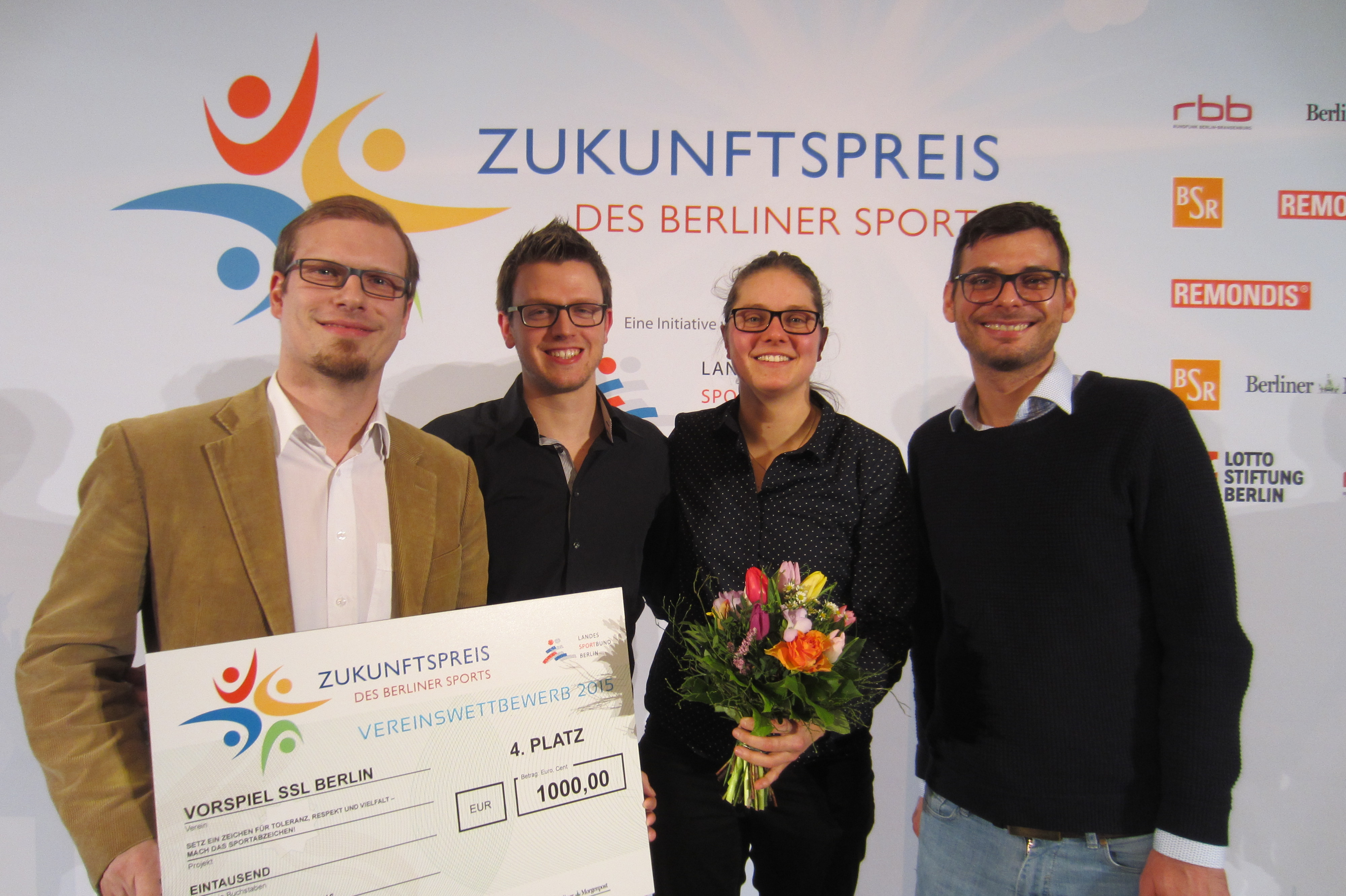 Am 29.01.2016 wurde "Setz ein Zeichen" im Roten Rathaus Berlin mit dem 4. Platz beim "Zukunftspreis des Berliner Sports" geehrt.